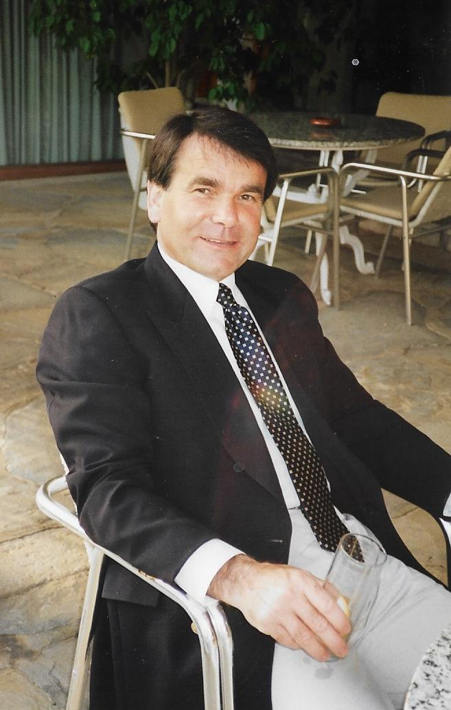 Leon